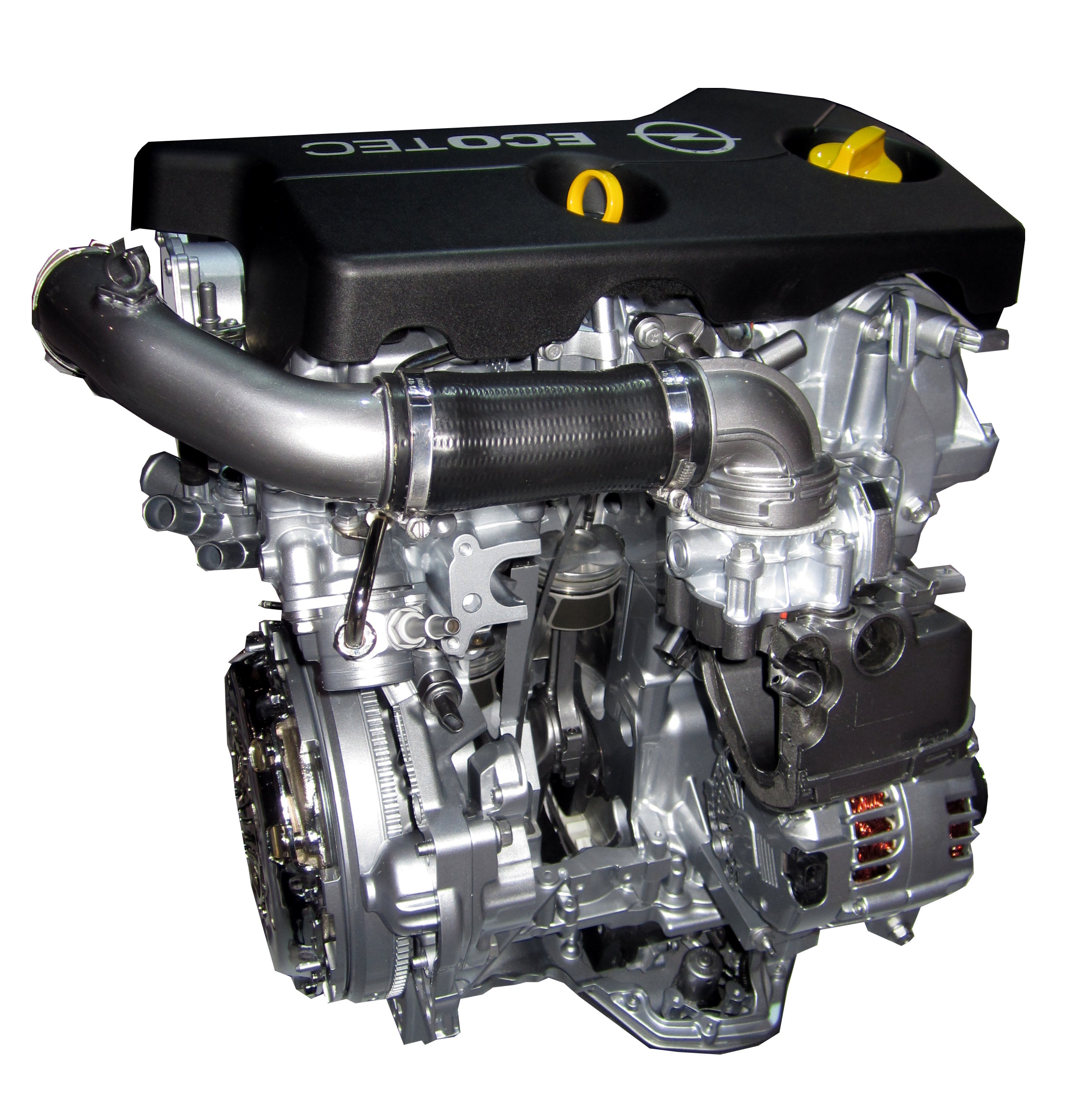 Opel three cylinder - engine B10XFT 1.0 SIDI Turbo (Spark Ignition Direct Injection)